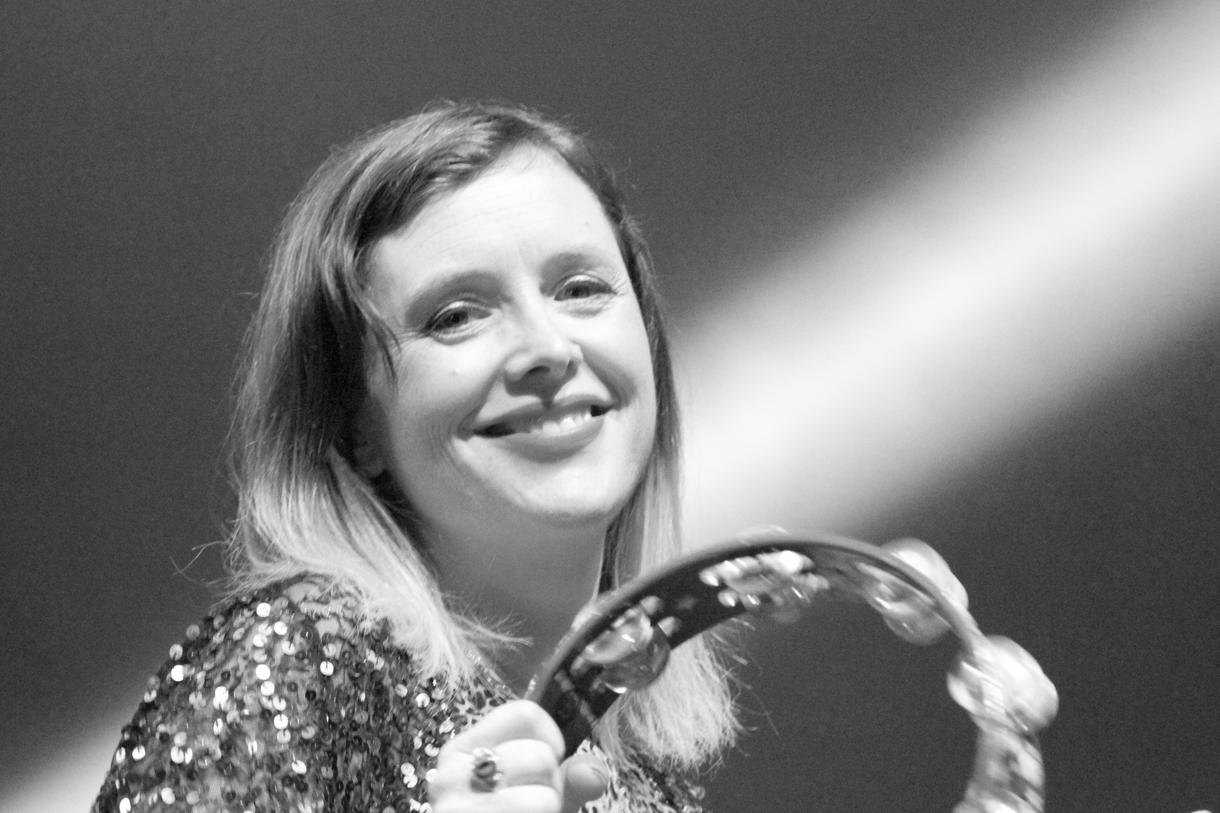 Slowdive at the Wave-Gotik-Treffen 2014.